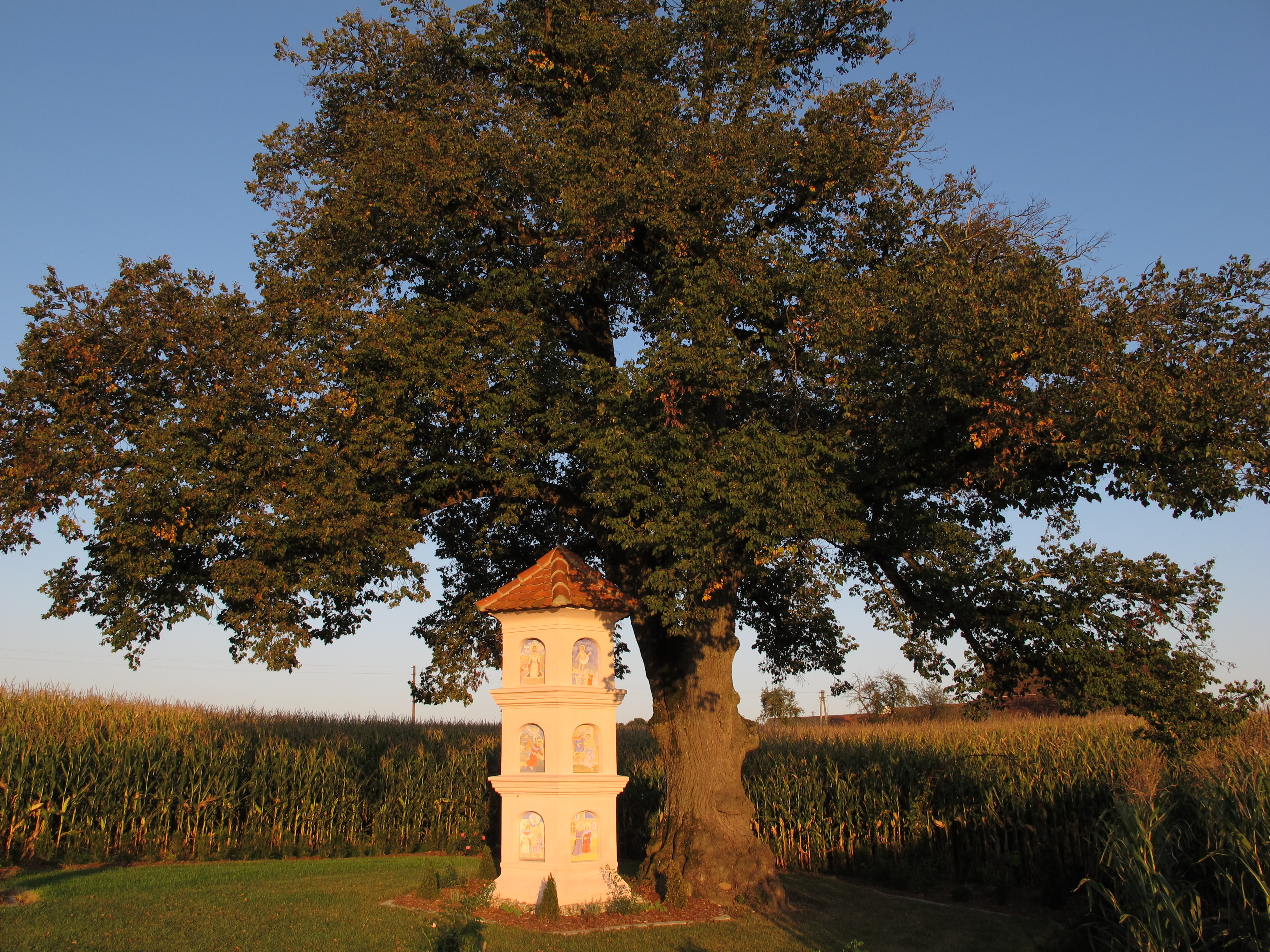 Winterlinde Aschbach